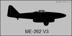 Side-view silhouette of the Me 262 V3 prototype.